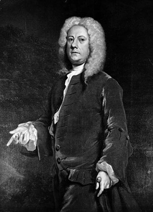 Portrait of Jethro Tull (1674–1741), British agronomist